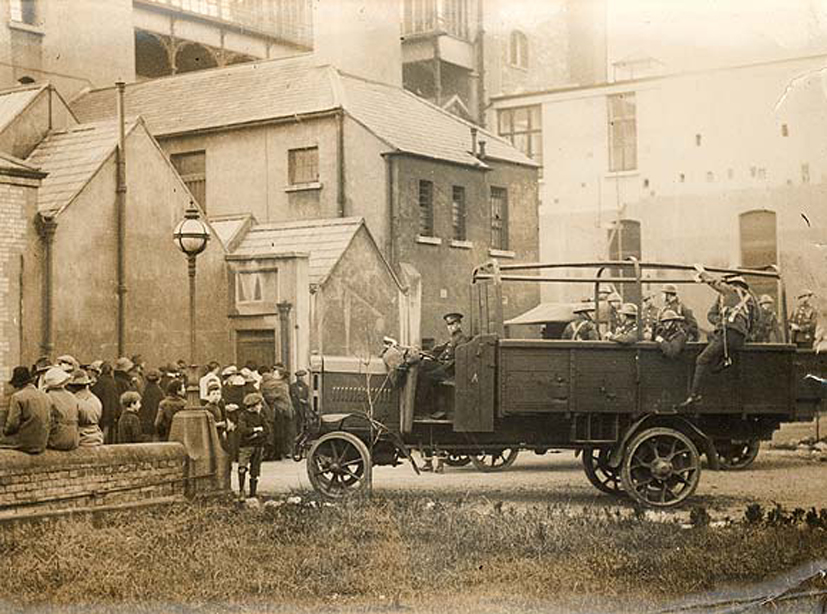 Friends of the victims and members of the military outside Jervis Street Hospital during the military enquiry into the Bloody Sunday shootings at Croke Park on Sunday, 21 November 1920. Monday's Irish Independent reported what had happened under the headline Raid on Football Match: "Terrifying scenes were witnessed yesterday at Croke Park when, during the progress of a challenge football match between teams representing Dublin and Tipperary, military, R.I.C., and auxiliary police made their appearance. Volleys of rifle fire were heard, and 15,000 spectators fled in a desperate attempt to escape. The casualties total 12 killed, 11 seriously wounded, and 54 others injured. An official account states the Crown forces went to seek persons concerned in the shootings yesterday morning, and alleges that pickets raised an alarm and fired on the approaching forces, the fire being returned. There were most painful scenes subsequently when the dead, who include one of the Tipperary players, and wounded were picked up and removed to hospital." Date: 24 November 1920 NLI Ref.: HOG161